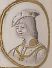 Garcia II of Galicia